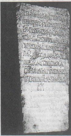 Epitaph of Marie Ivanovna, daugher of Ivan V of Russia, 1692